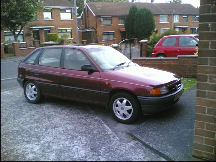 Photo taken July 03 2005. Note the differences between it and the Phase 2 Mk3, namely the orange front indicators, different badging font, and bump strips. Other differences include lack of a 'V' front grille, and plain boot (Phase 2 has a black strip on the boot lid, and smoked rear lights).